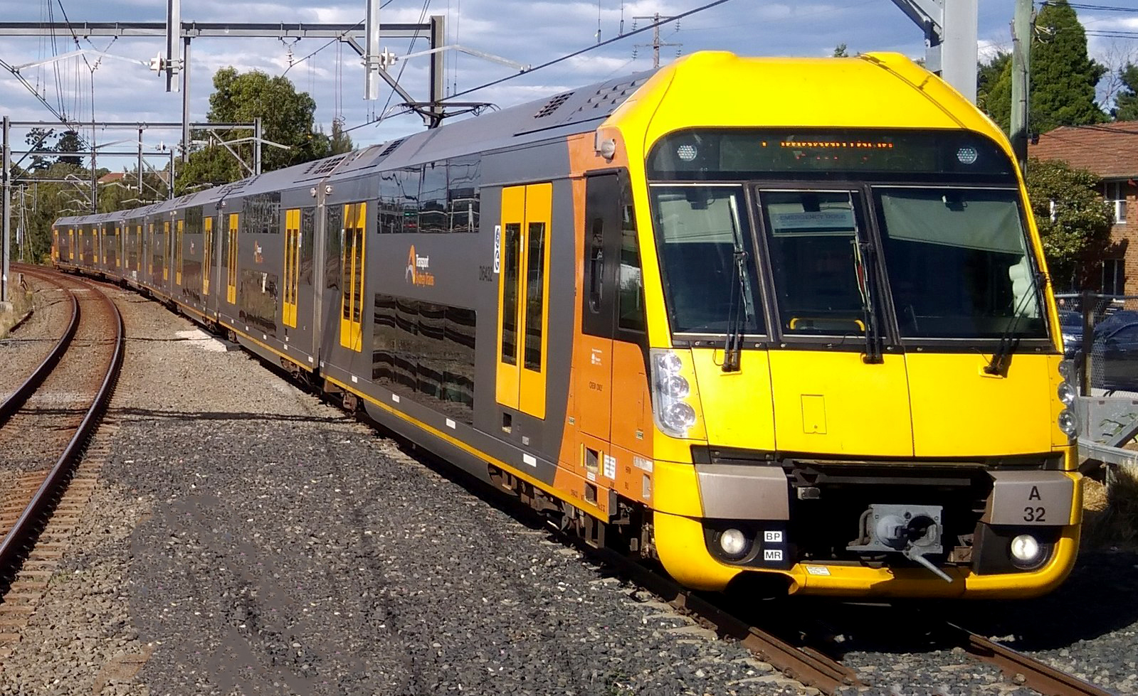 Waratah set A32 approaches Flemington station.